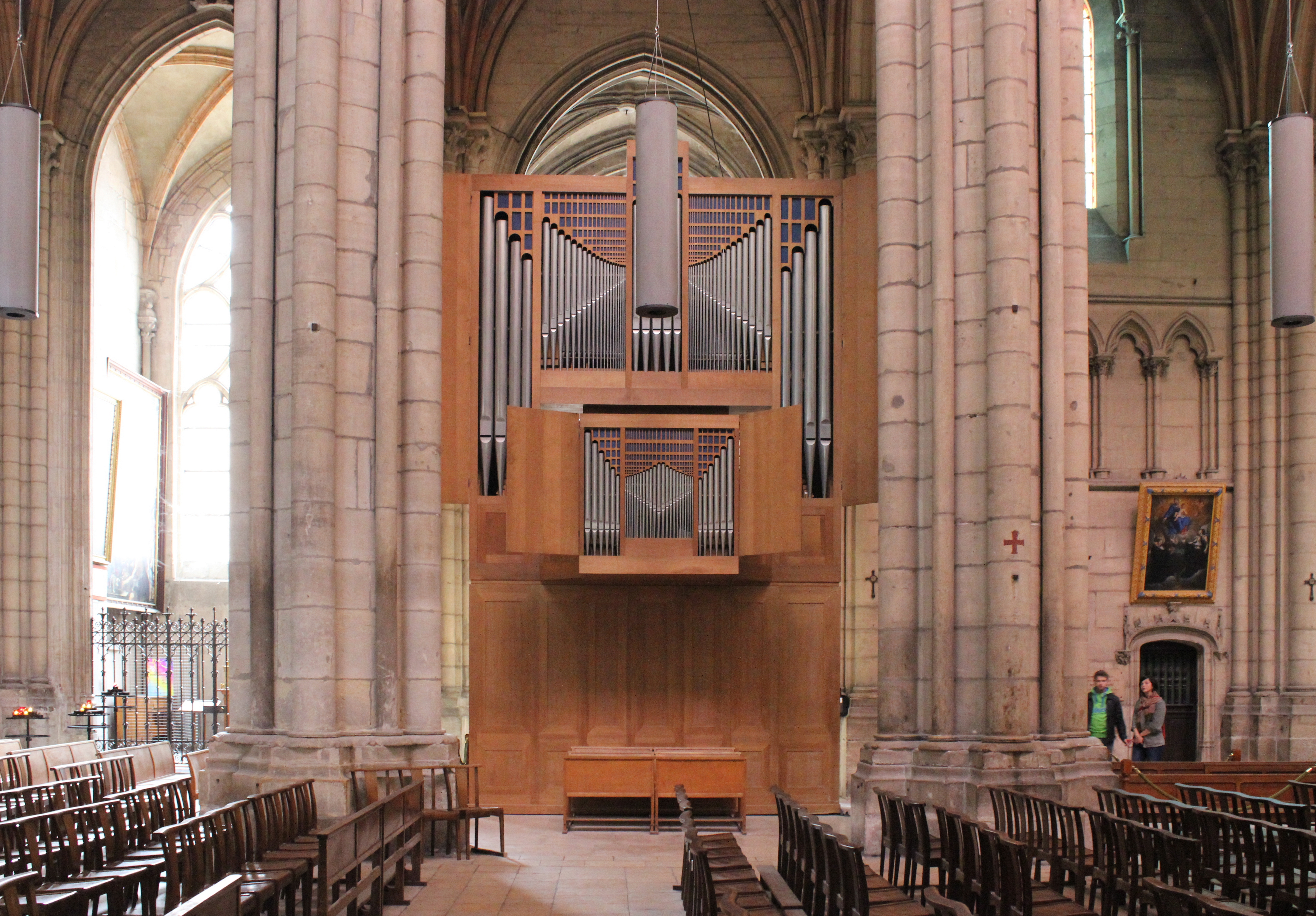 Saint-Jean cathedral in Lyon.